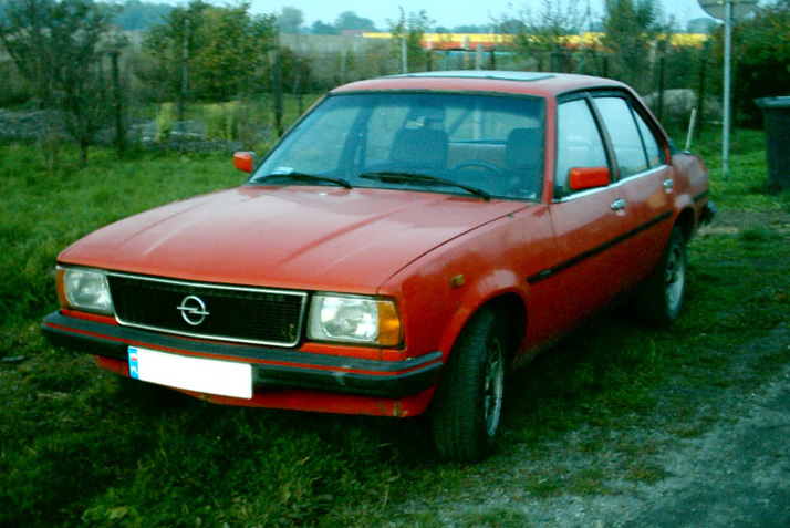 Photo of the Opel Ascona B. Front view. Żary, Poland